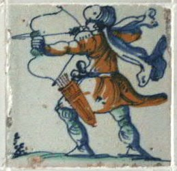 Decorated tile showing a Saracen.